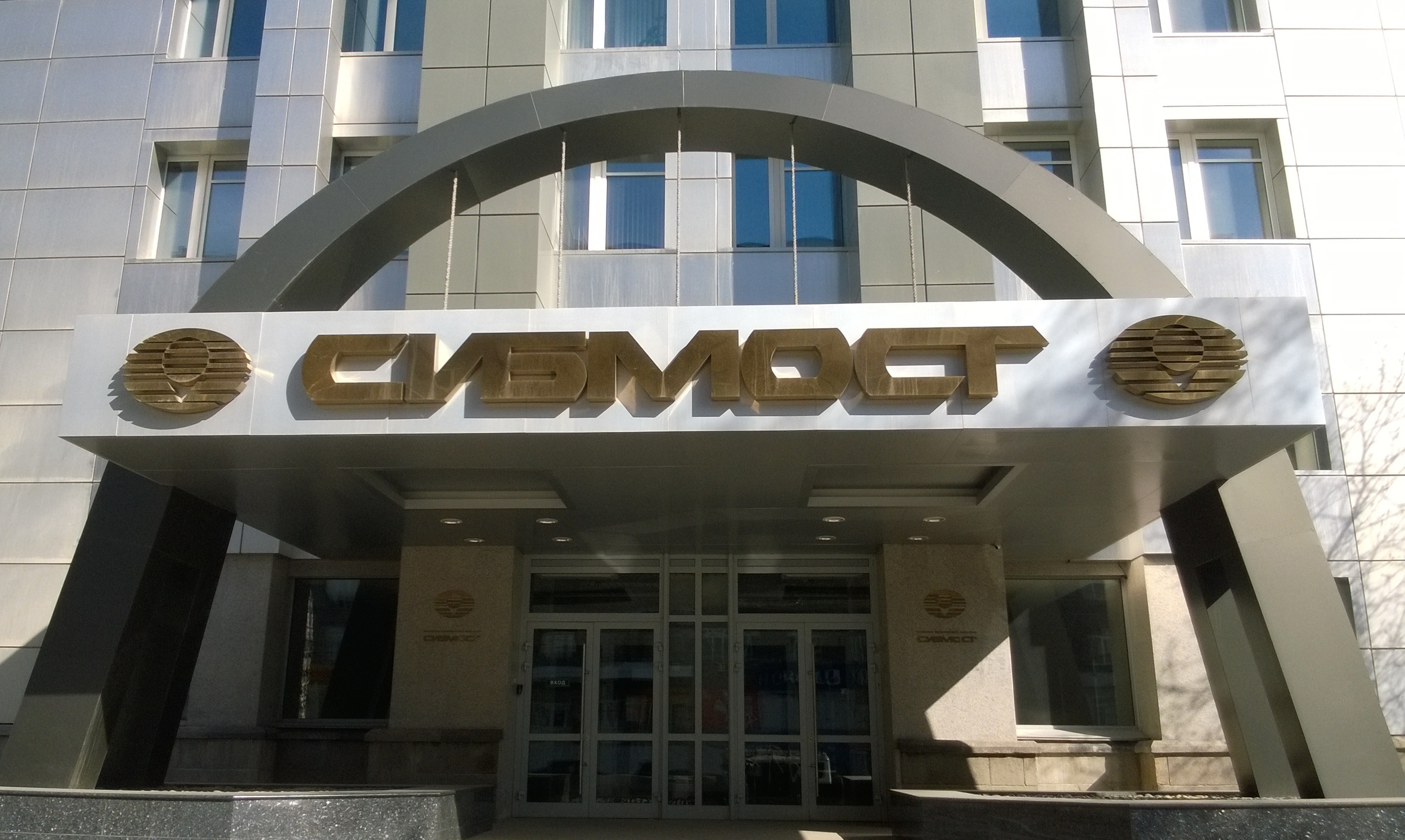 Russian bridge-building company